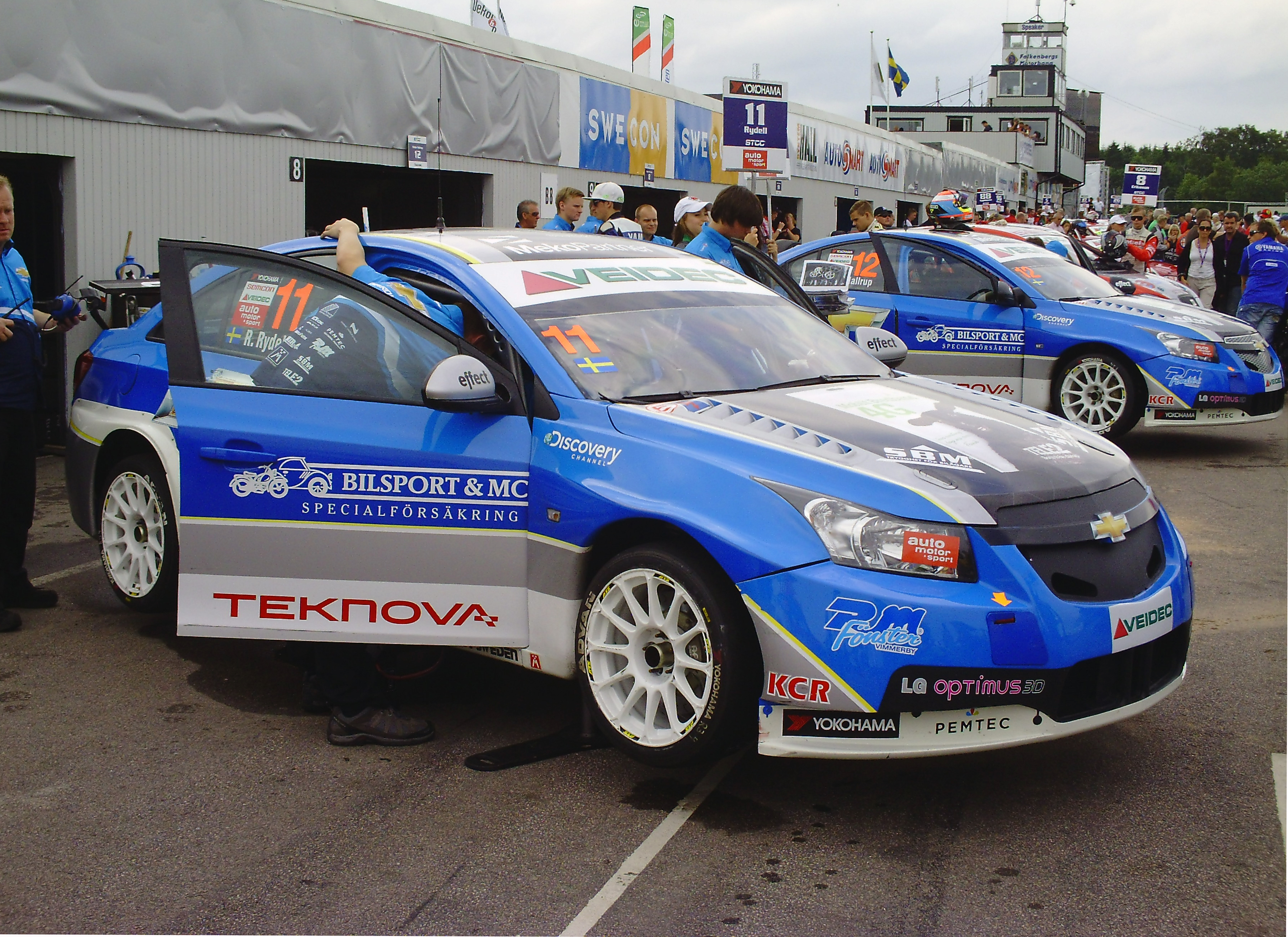 The two Chevrole Cruzes of Chevrolet Motorsport Sweden (NIKA Racing) at Falkenbergs Motorbana, during the fifth round of the 2011 Scandinavian Touring Car Championship (STCC) season. The drivers are Rickard Rydell and Viktor Hallrup.